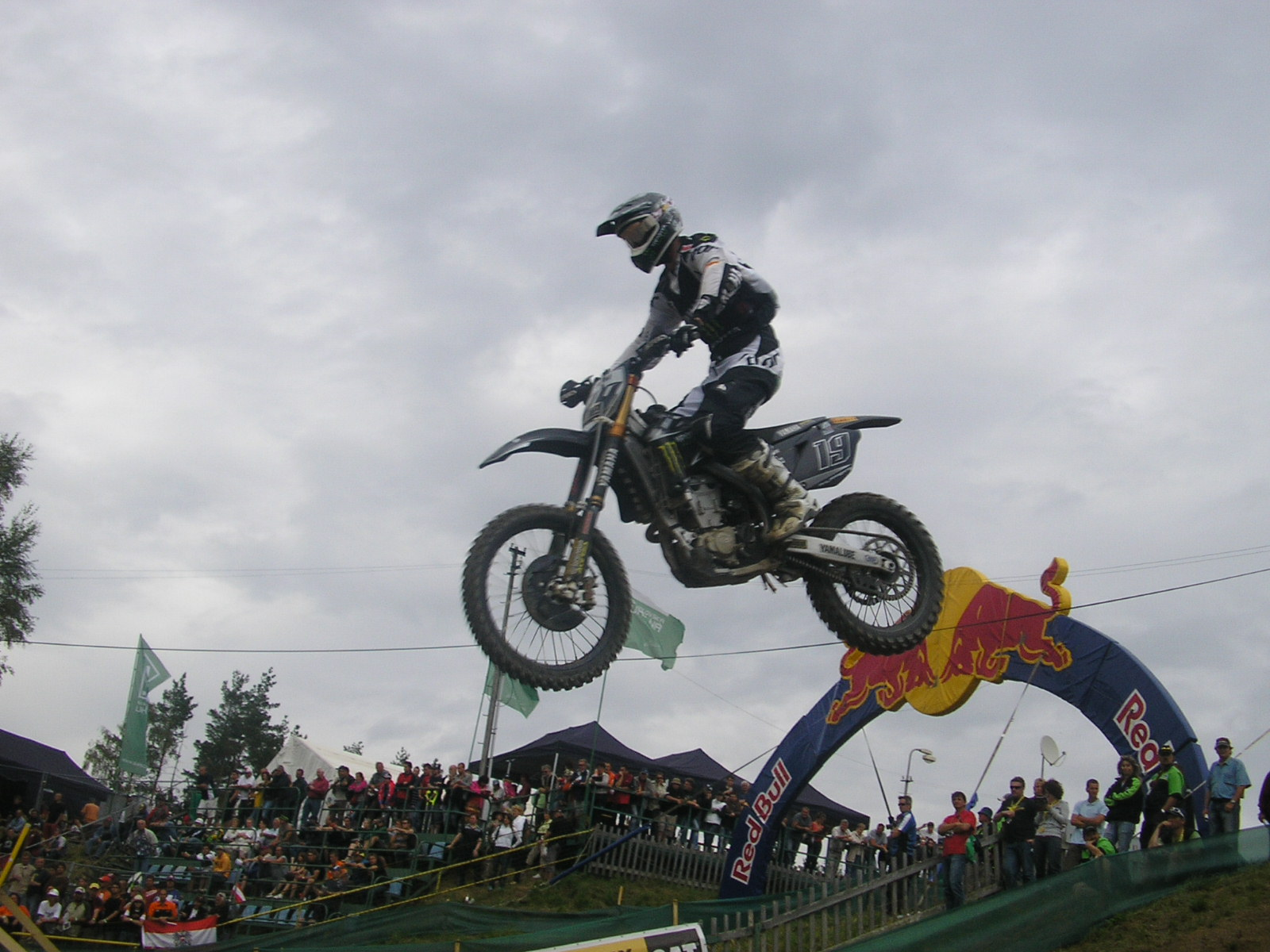 My picture